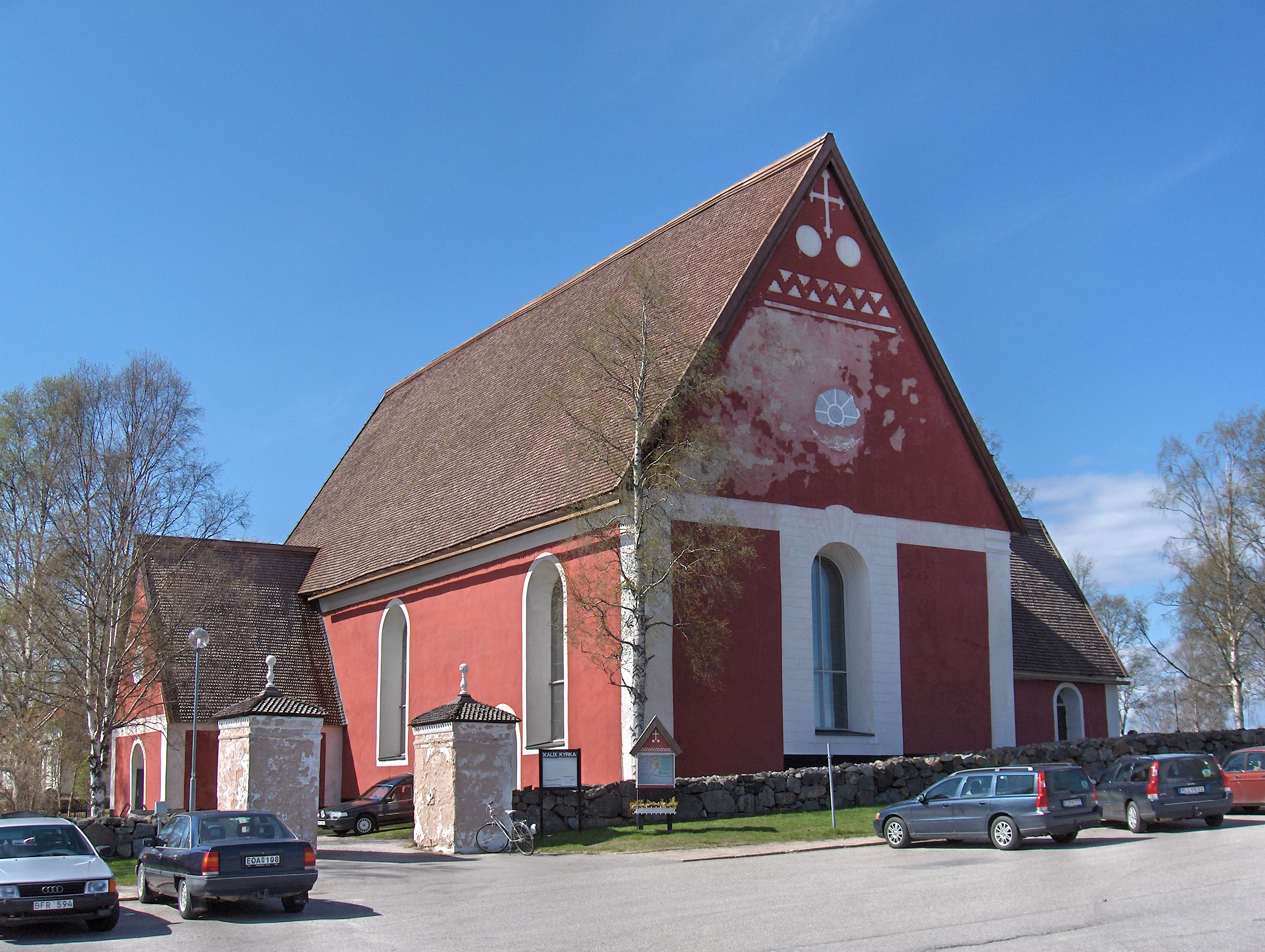 Kalix Church, Kalix, Sweden